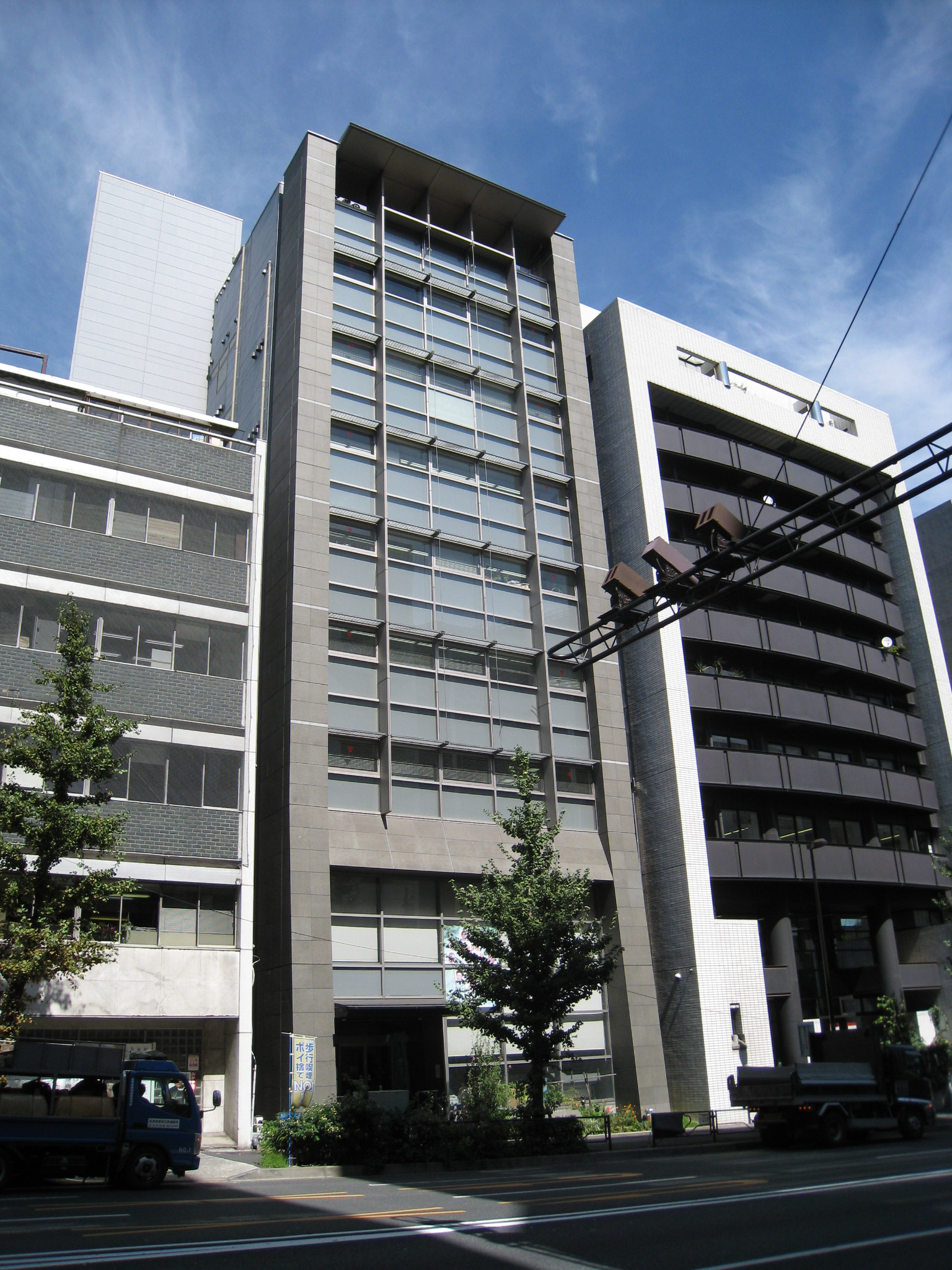 Zenrouren Kaikan, at Yushima, Bunkyo, Tokyo, Japan